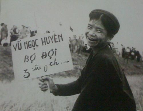 Vietnamese Peasant